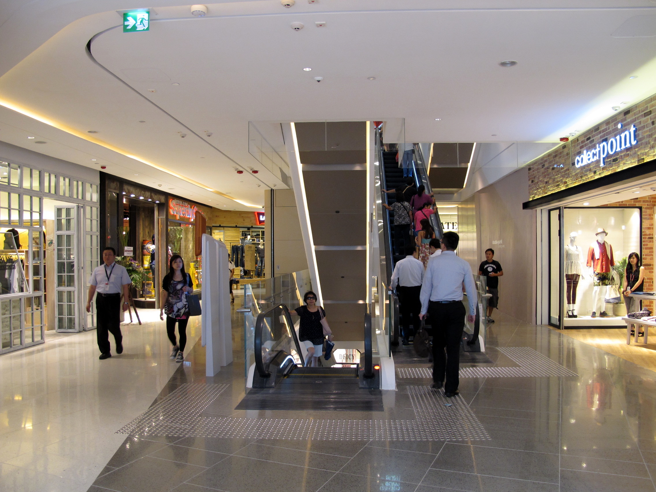 Hysan Place Level 5